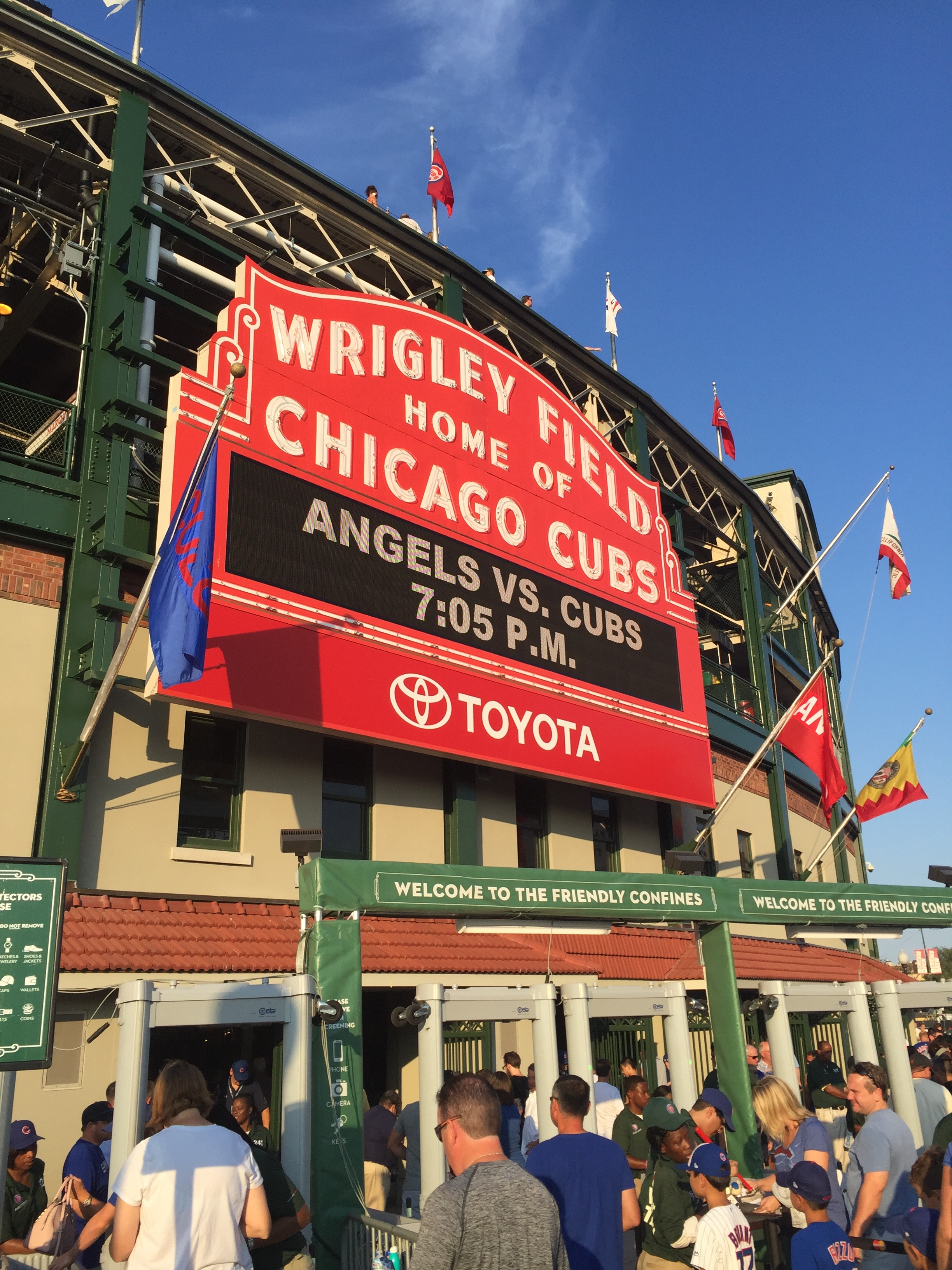 Wrigley Field's grandstand marquee